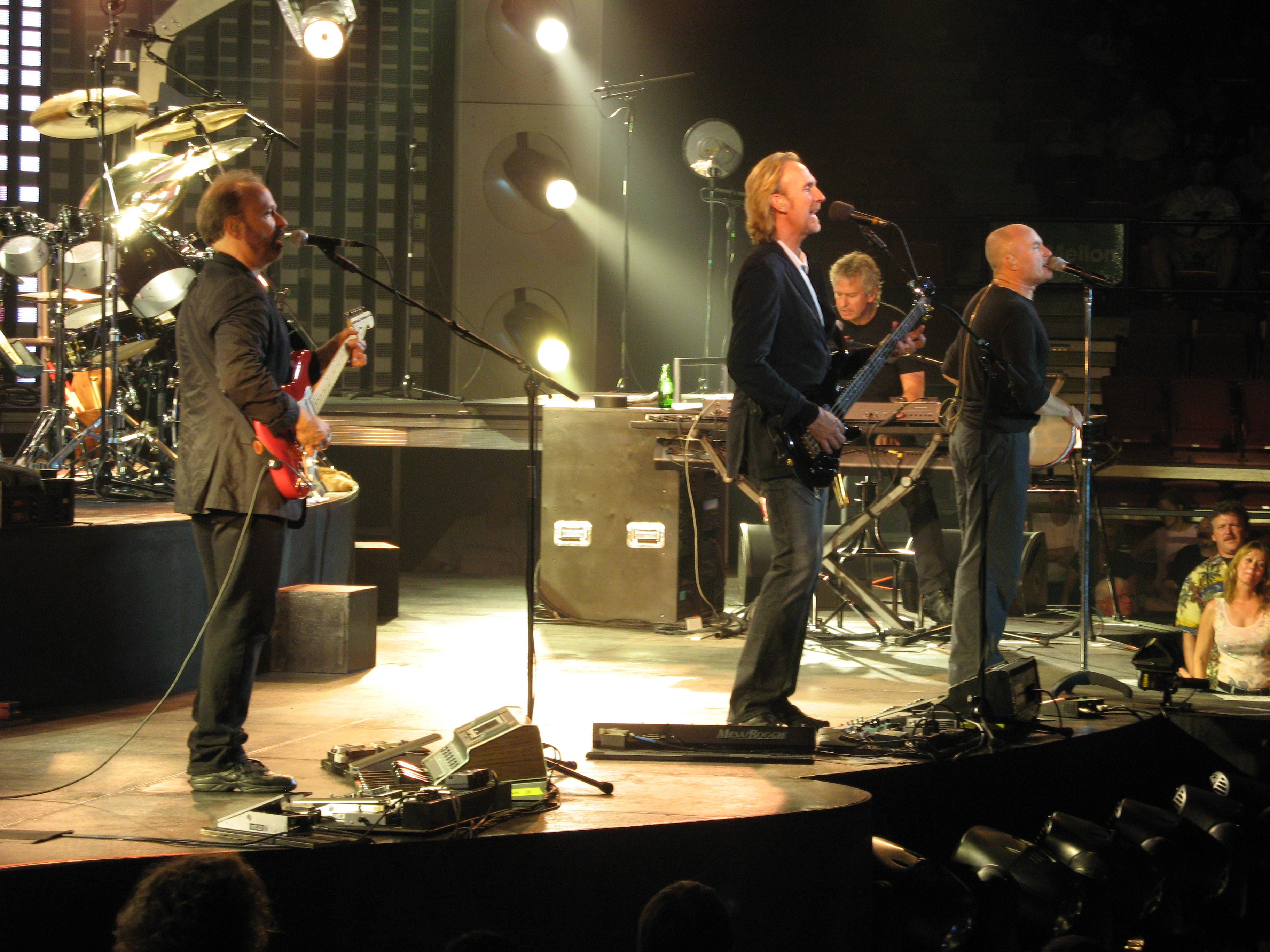 Genesis concert at the Mellon Arena, Pittsburgh, Pennsylvania, USA. Performing "I Know What I Like (In Your Wardrobe)".